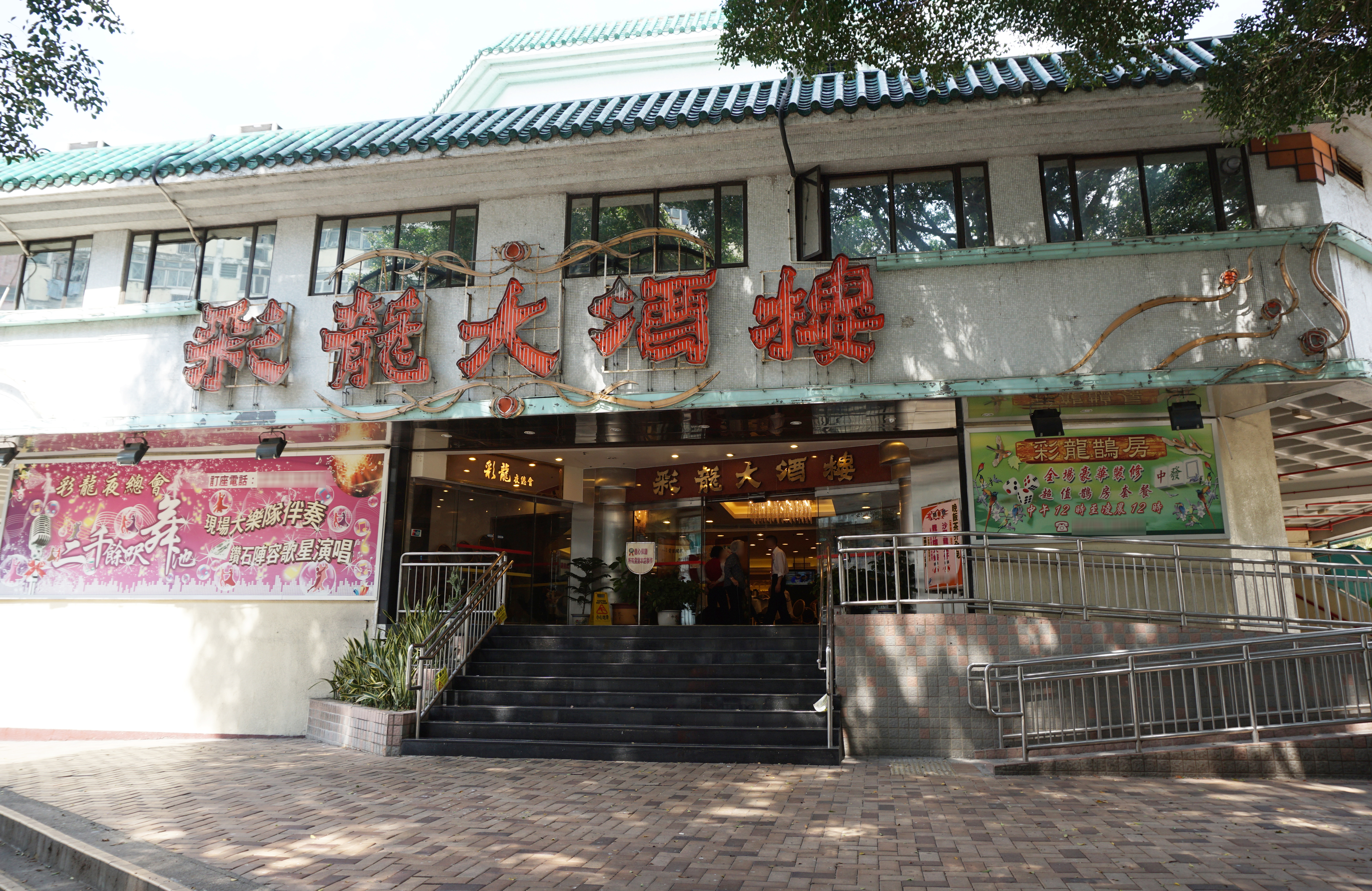 Tai Hang Tung Estate in Shek Kip Mei, Hong Kong.